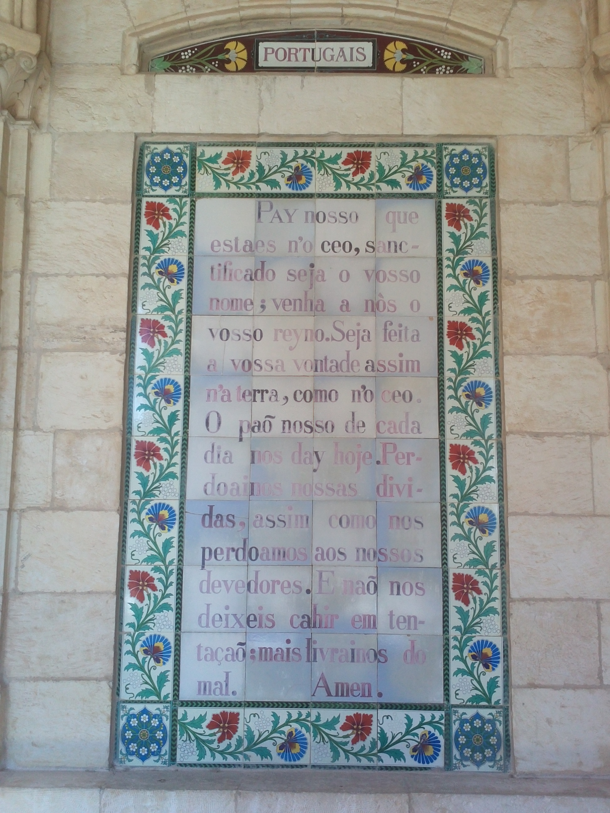 Lord's Prayer in portuguese at the Pater Noster church.